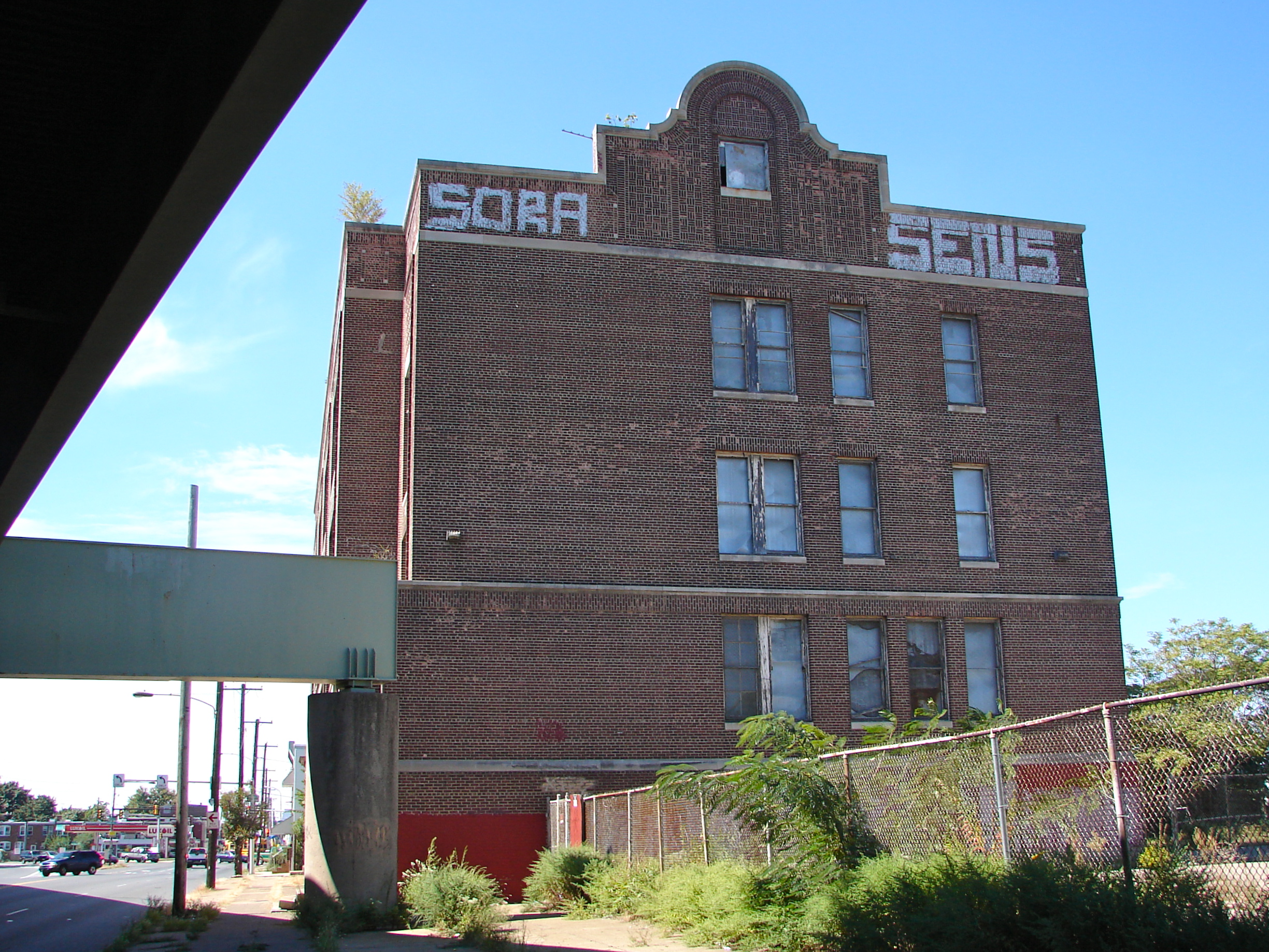 Henry Longfellow School in Philadelphia on the NRHP since November 18, 1988. At 5004–5098 Tacony Street in the NE Philly neighborhood of Frankford. The school is almost under the Delaware Expressway (I-95) and on the other side of I-95 is the Sunoco Chemical refinery. The rest of the neighborhood is just depressing. School now closed. The steel beam in the picture supports I-95 and does not touch the school. The shadow is I-95.